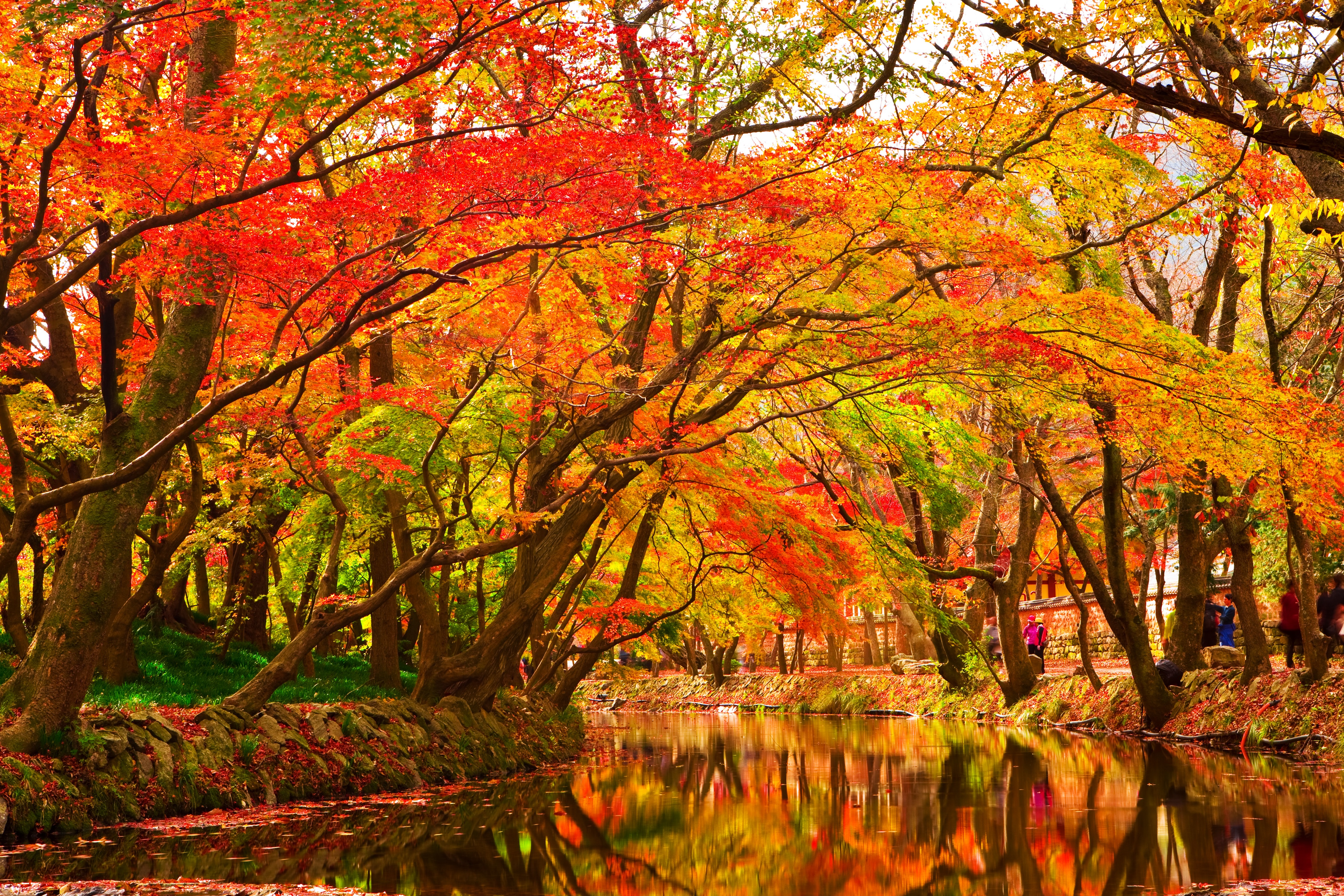 Autumn